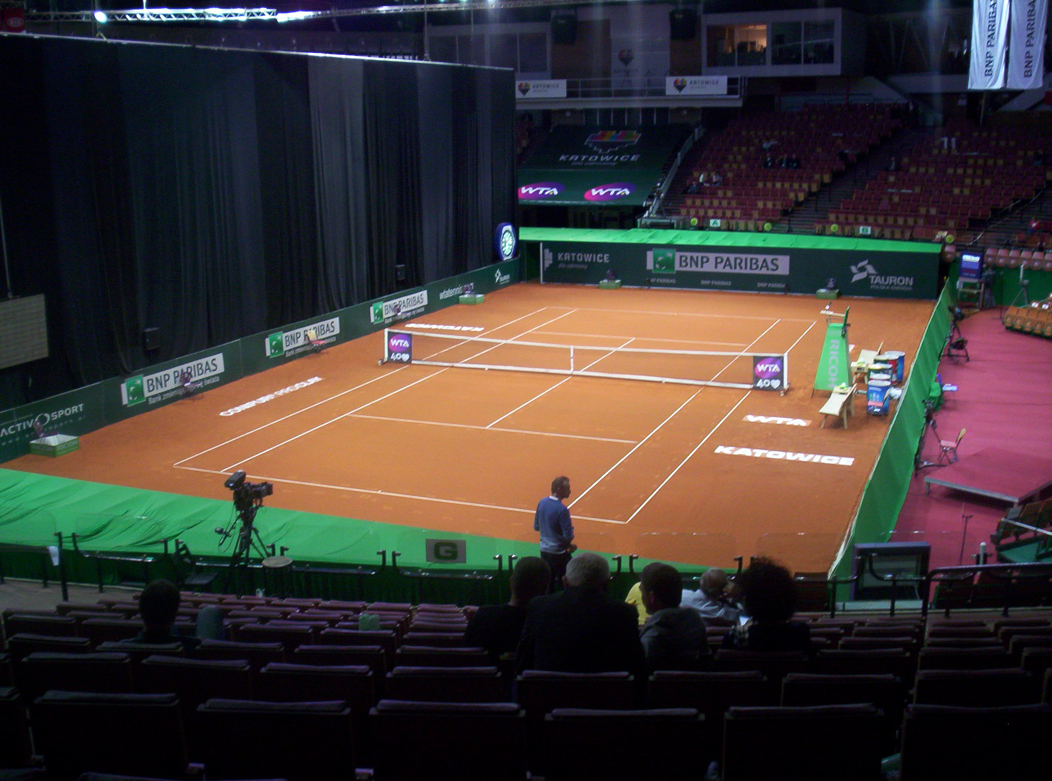 BNP Paribas Katowice Open 2013 - main court